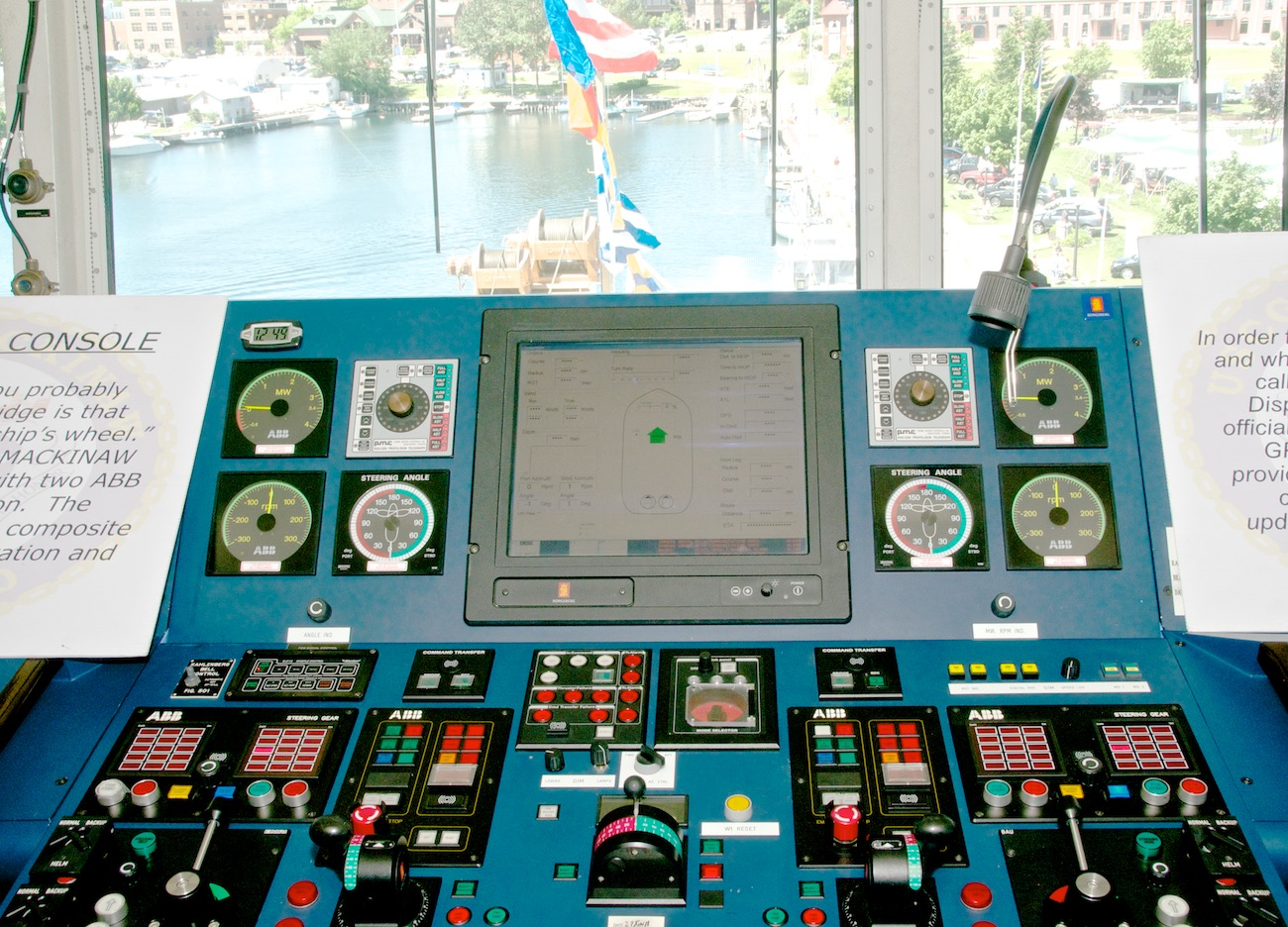 Main Control Console on the U.S. Coast Guard Cutter (USCGC) Mackinaw . The Conning Officer uses these controls to set the orientation and speed of the two Azipods that propel the vessel. The Azipods can rotate 360 degrees horizontally to move the ship in any direction. Seen during the Cutter Mackinaw's 2011 visit to the Lower Harbor in Marquette, Michigan.